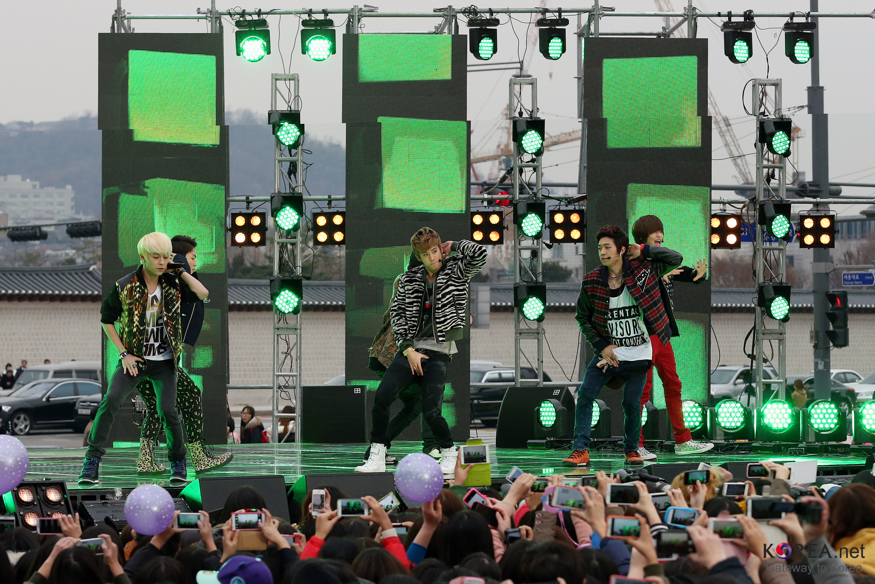 SBS Inkigayo. Teen Top '나랑 사귈래'. Gwanghwamun, Seoul, Korea